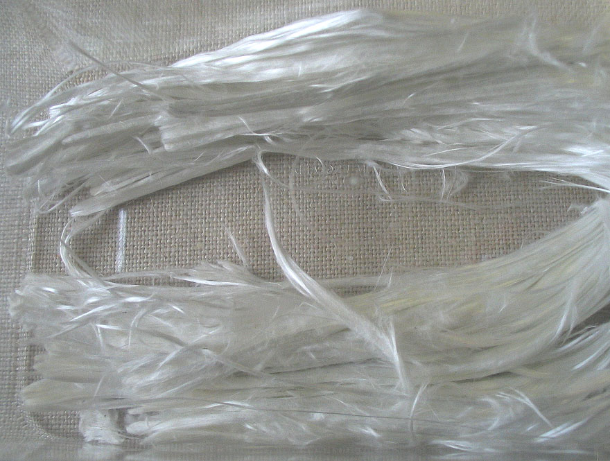 Asbestos (tremolite) silky fibres from Val di Susa, Italy. Photograph taken at the Natural History Museum, London.